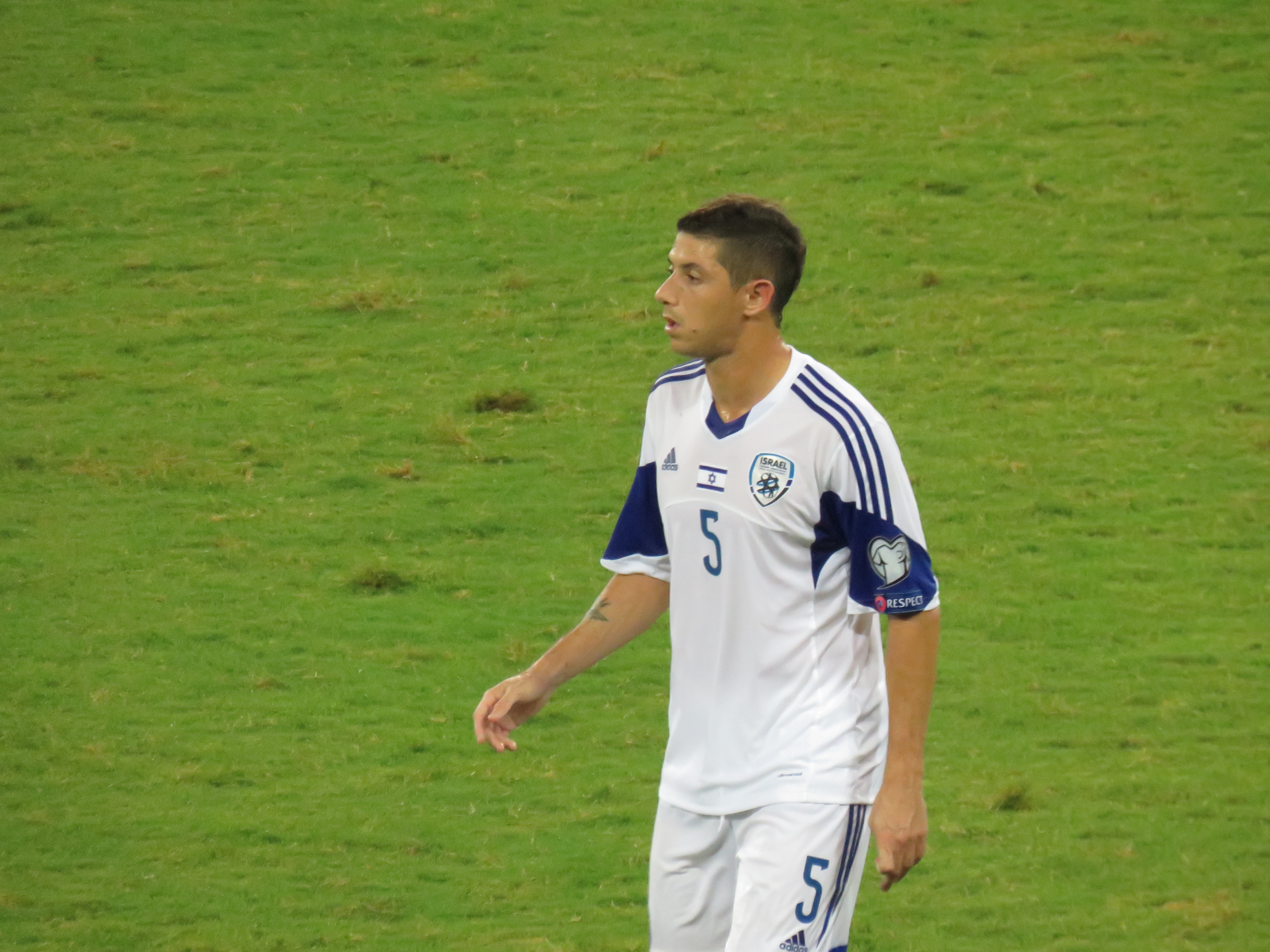 Israel vs. Andorra - September 3, 2015